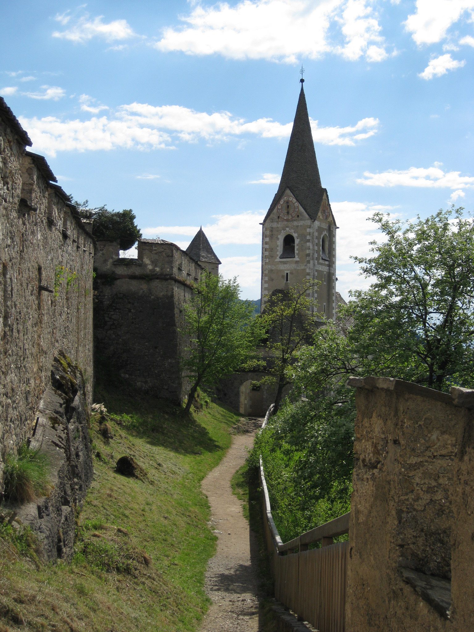 Hochosterwitz castle (slovenian: grad Ostrovica), castle in Carinthia state, Austria Church